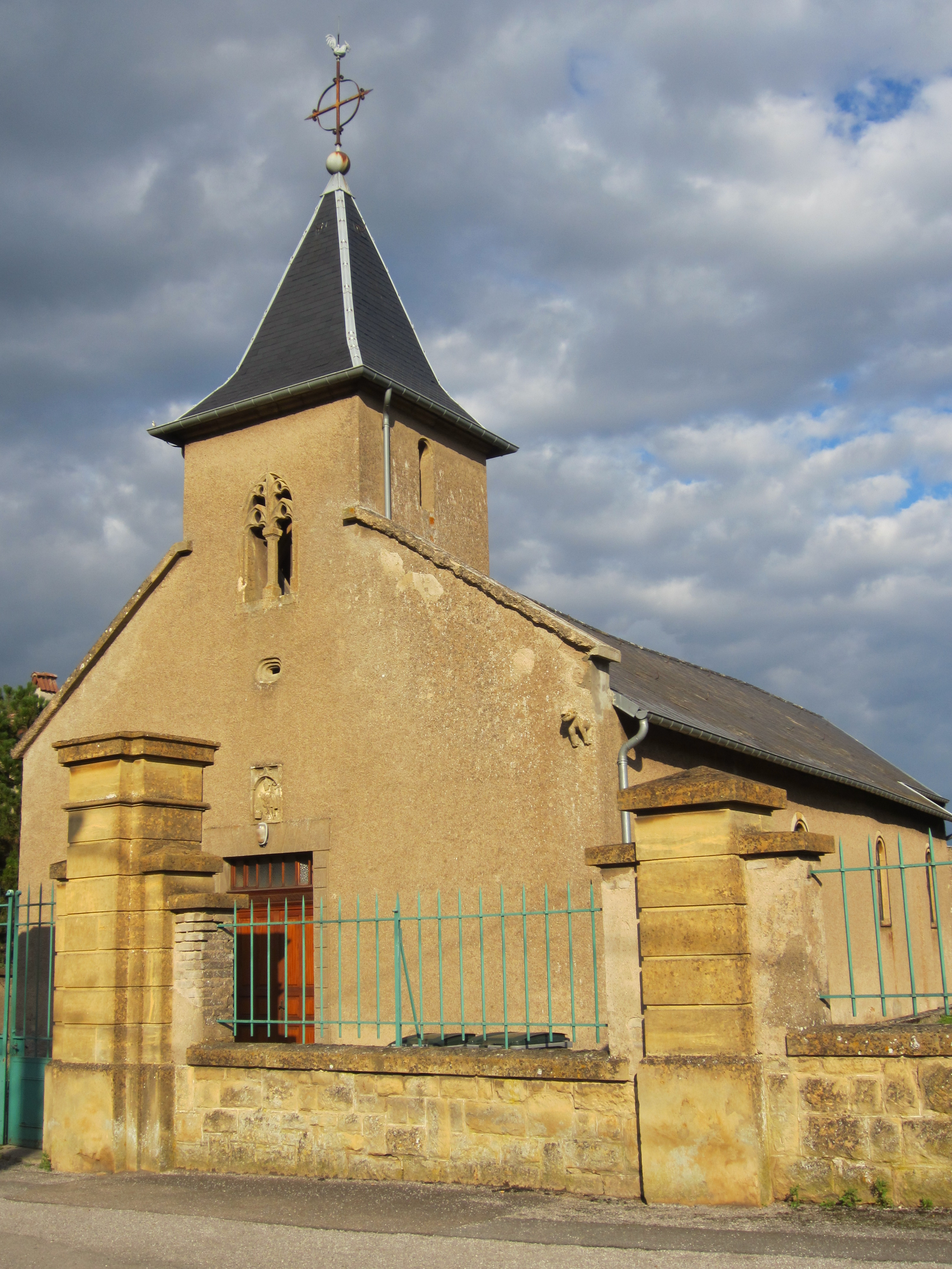 Description chapelle saint Hubert Entrange Date19 September 2011Sourcemon appareil photoAuthorAimelaimePermission (Reusing this file) chapelle saint Hubert Entrange